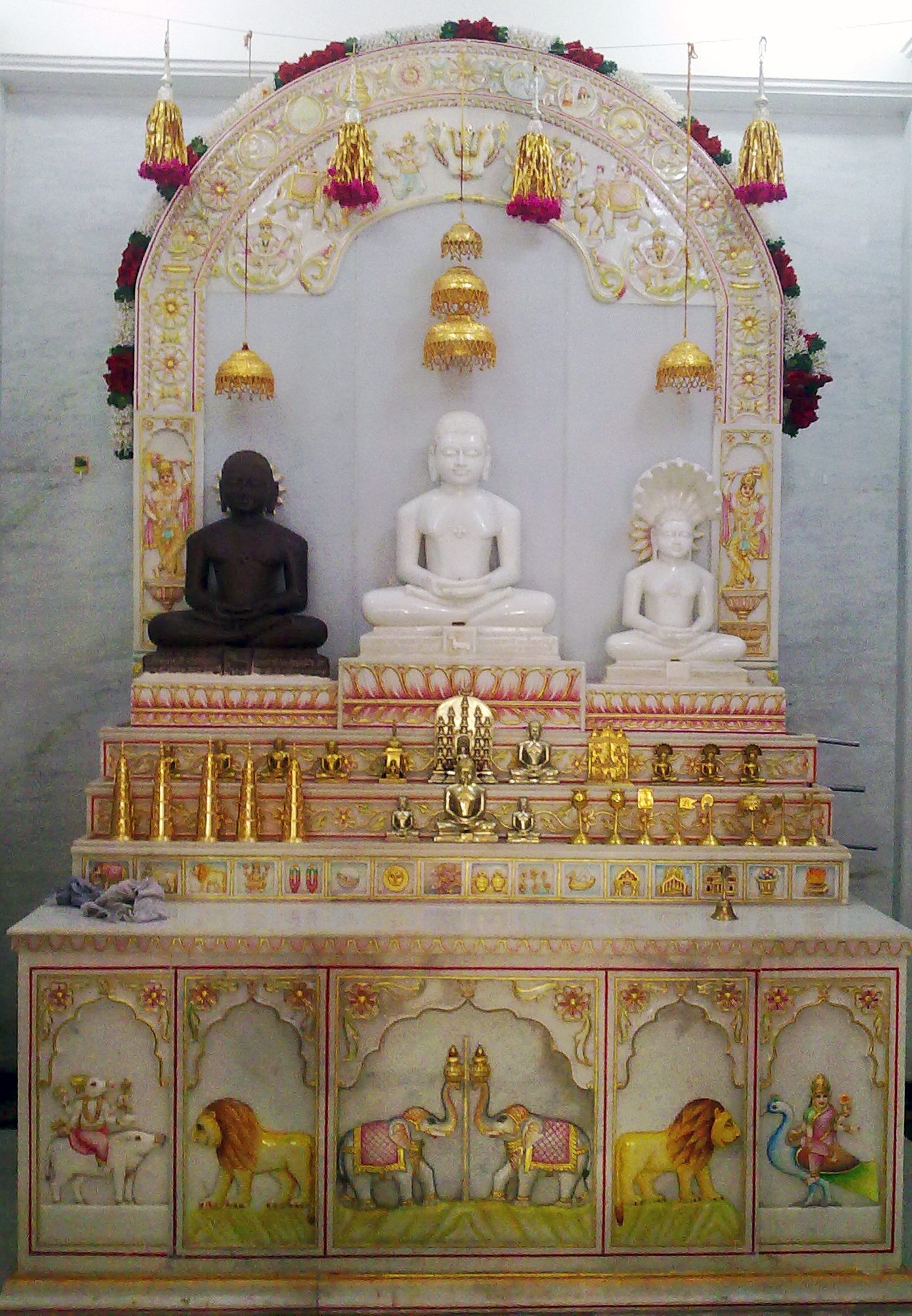 This a mandir vedi from shantinath jain teerth,indapur